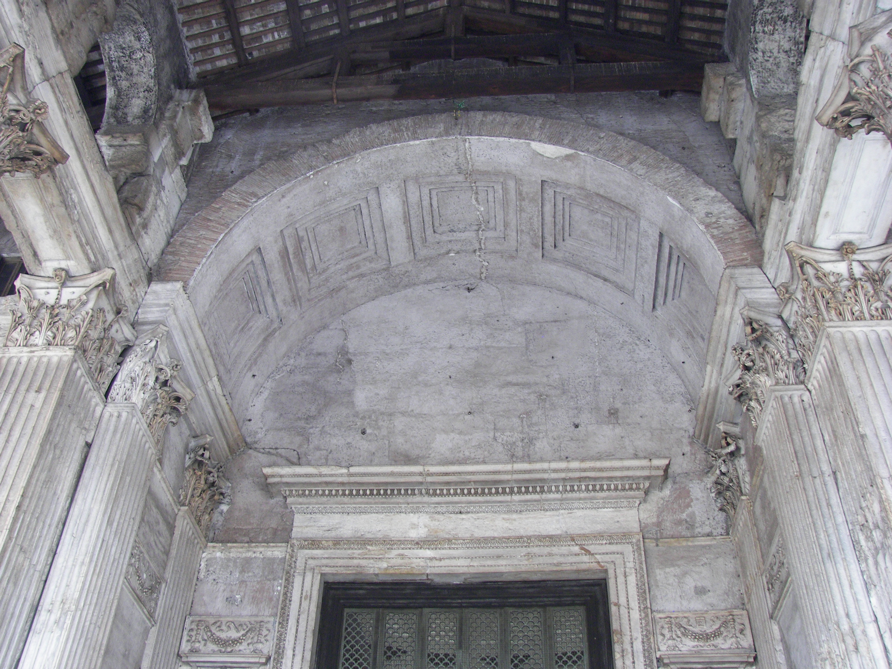 Arch at the top of the entrance to the Pantheon in Rome.